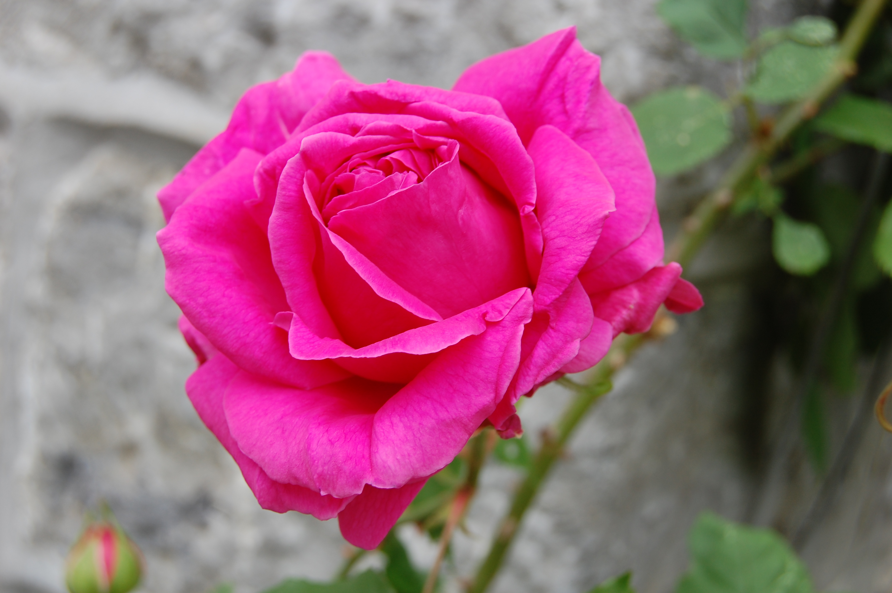 Rose